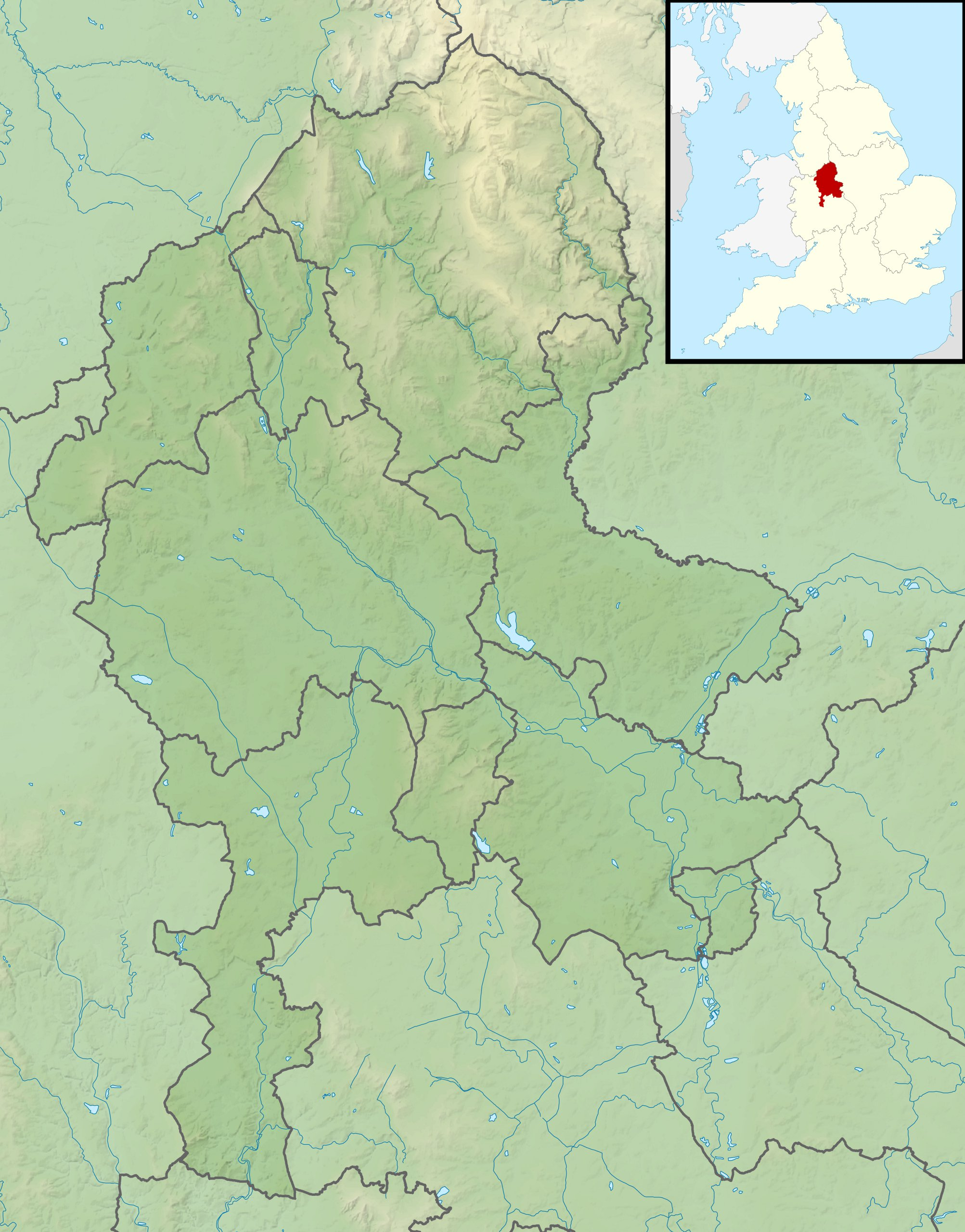 Relief map of Staffordshire, UK. Equirectangular map projection on WGS 84 datum, with N/S stretched 165% Geographic limits: West: 2.50W East: 1.40W North: 53.25N South: 52.40N